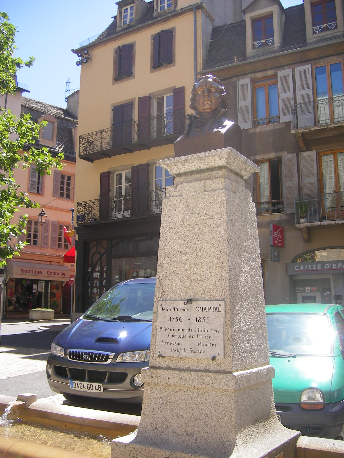 Mende, Bust of Jean-Antoine Chaptal